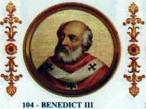 Reproduction of the portrait of Pope Benedict III in the Basilica of Ssaint Paul Outside the Walls, Rome